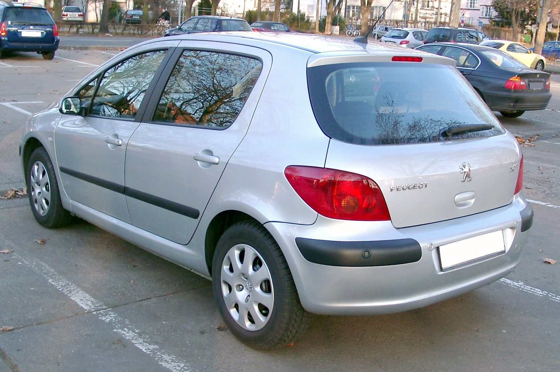 Peugeot 307